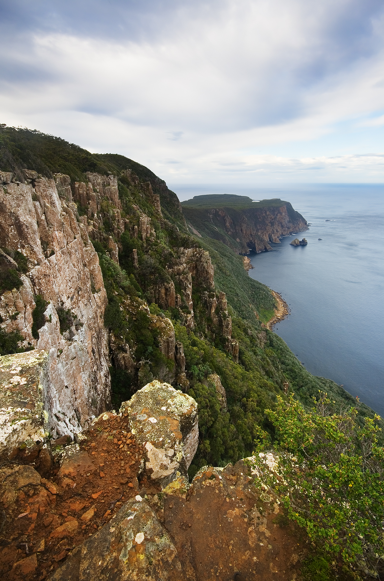 Cape Raoul from the Lookout, Tasman Peninsula, Tasmania, Australia